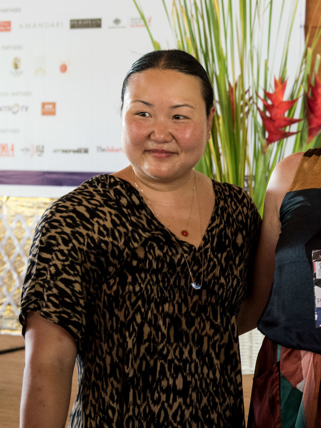 These photos are the property of the photographer and the Ubud Writers & Readers Festival. We encourage you to share and use in your own media, but please remember to credit our photographers and the Festival accordingly. Thank you!